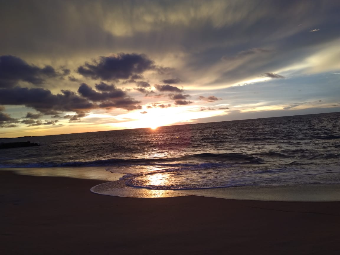 Sunset